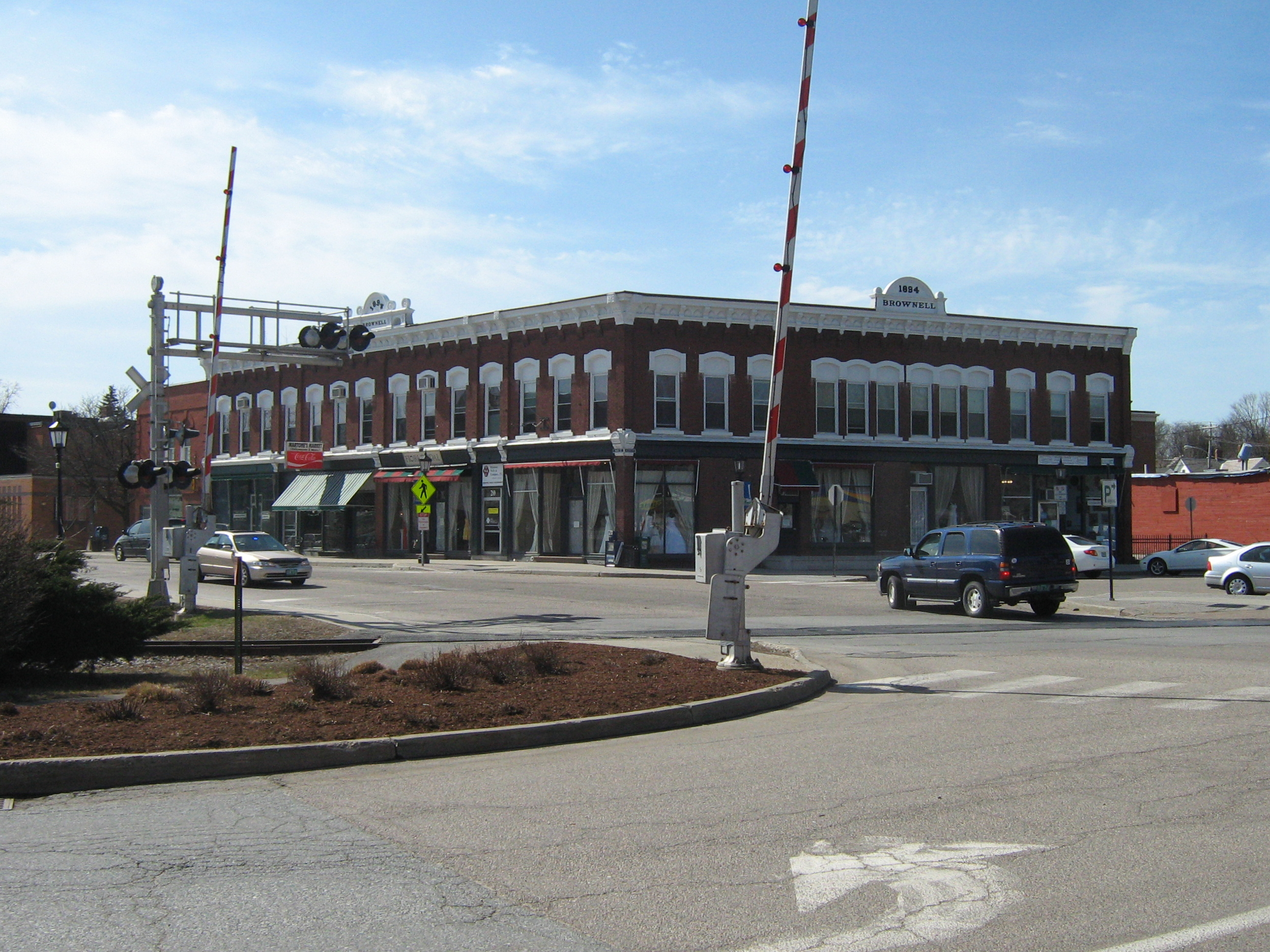 Downtown Essex Junction (Vermont) Commercial Historic District (partial). This is the EVEN (north) side of Main Street; Railroad Avenue is to the right. See also File:DowntownEssexJct2.JPG and File:DowntownEssexJct3.JPG.